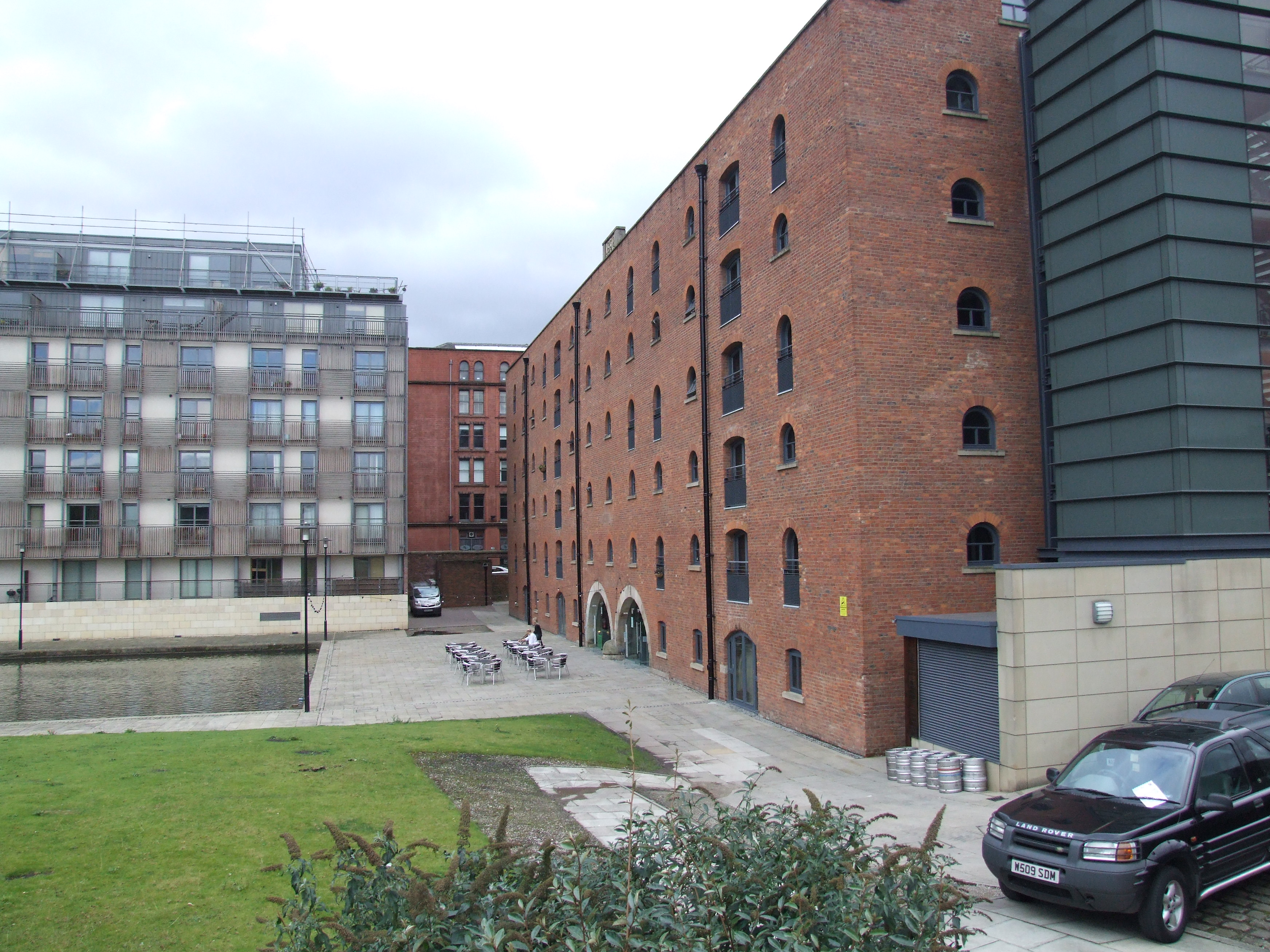 South of Great Ancoats Street, the Rochdale Canal passes the Piccadilly Basin, most of which has been back filled. The Ashton Canal joins from under the Ducie Street bridge, and at Dale Street it drops down the Dale St Locks (84). Tackson Warehouse from Tariff Street